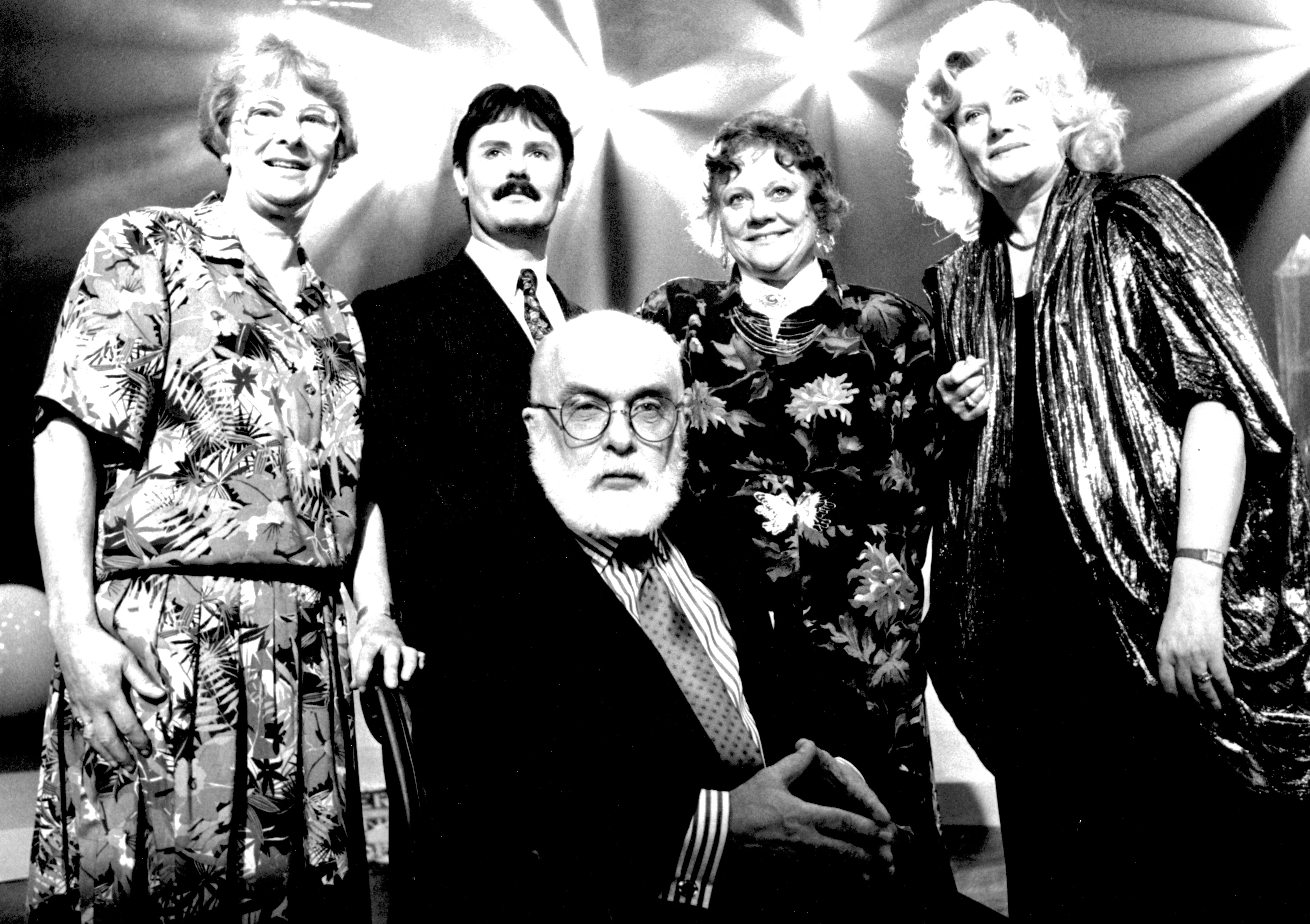 James Randi (front) appearing with guests (from left to right) Coral Polge, Stephen O'Brien, Nella Jones and Maureen Flynn on the Open Media tv series for ITV "James Randi: Psychic Investigator" (1991)